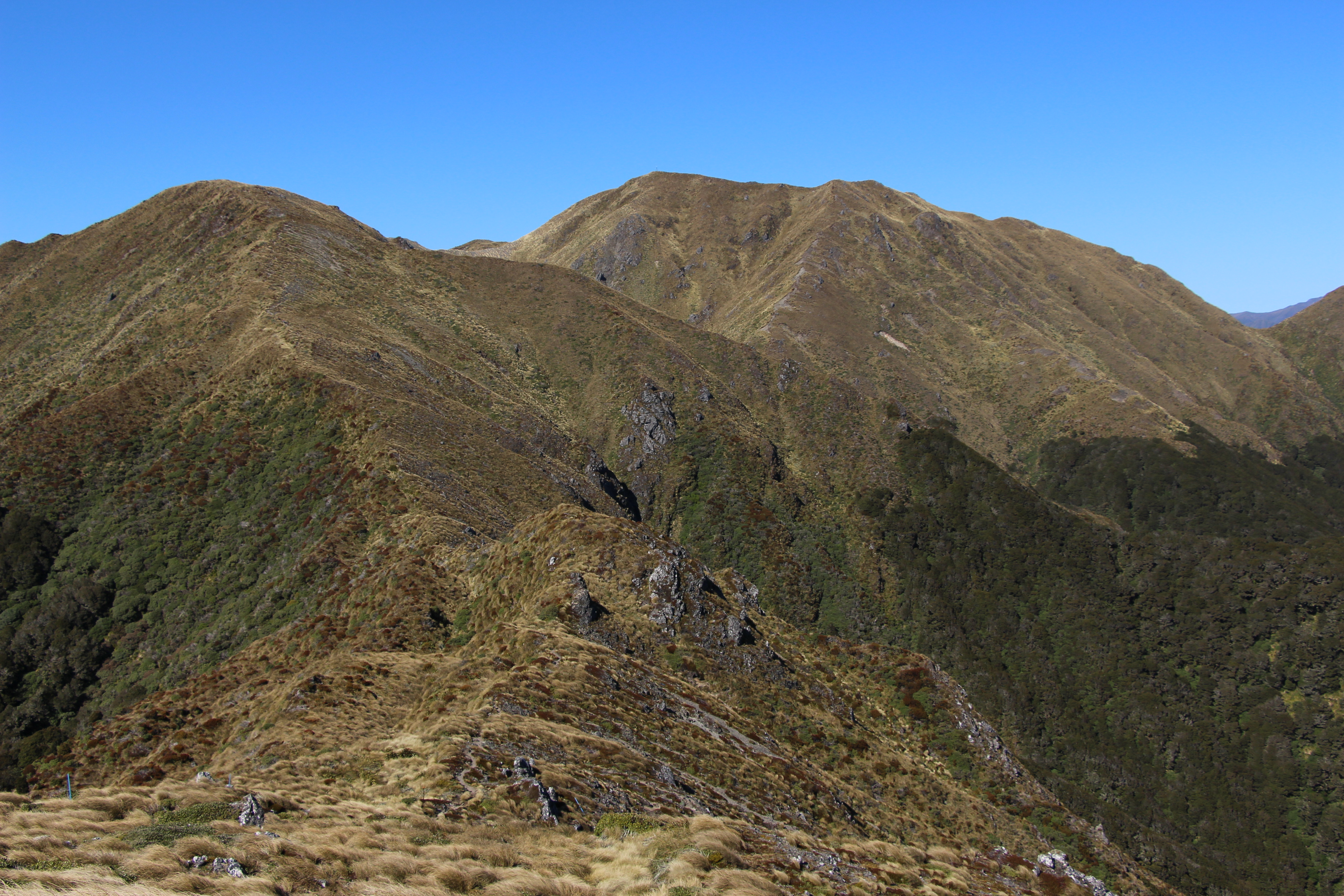 Ridge from Mt Holdsworth to Mt Jumbo. Photo was taken very close to the top of Mt Jumbo. Mt Holdsworth - Jumbo Circuit, Tararua Range, New Zealand